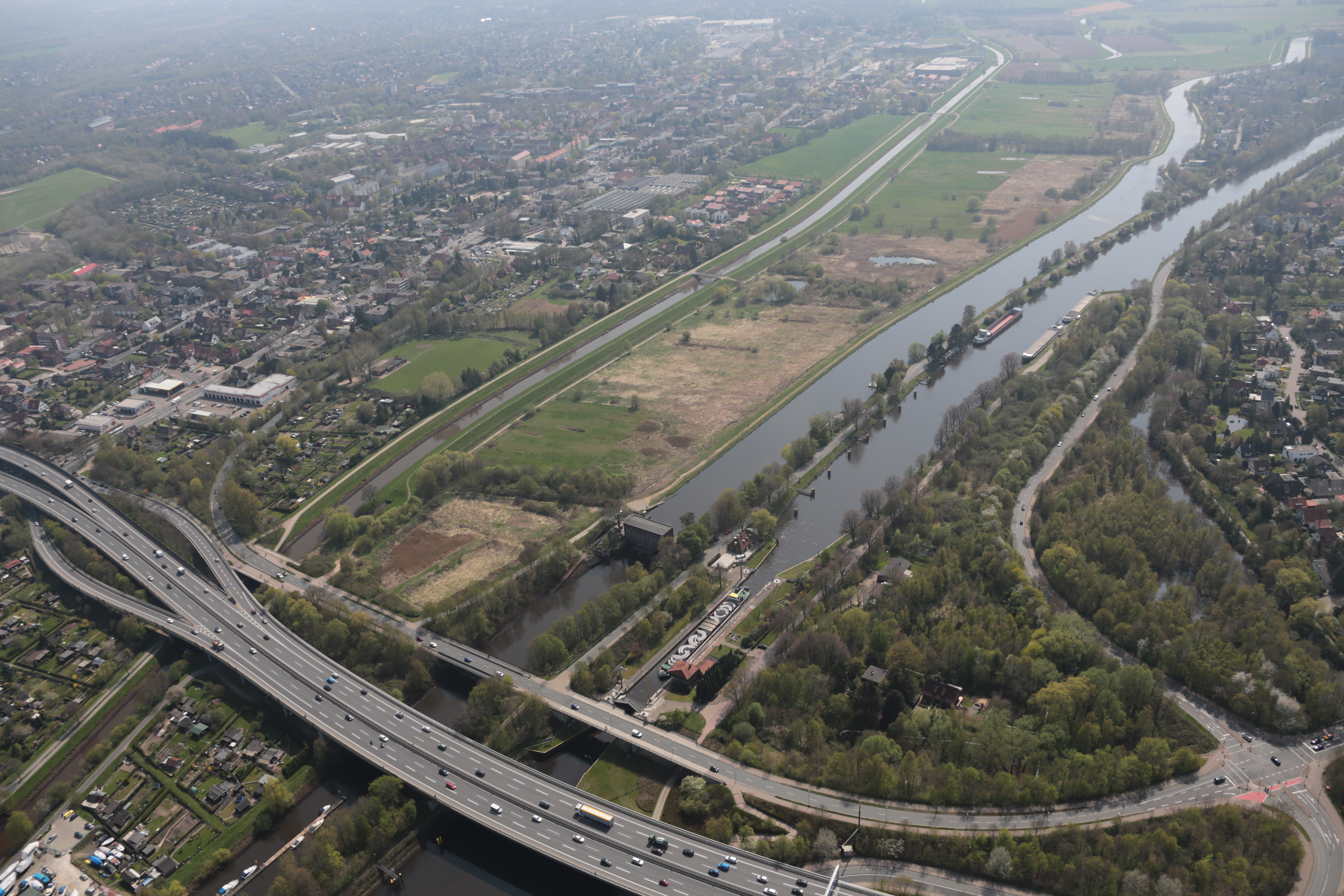 Fotoflug von Nordholz-Spieka nach Oldenburg (links der Gewässer liegt der Stadtteil Kreyenbrück) und Papenburg. Auf dem Foto sind auch zu sehen der Fluss Hunte, der Küstenkanal sowie der Osternburger Kanal. This photo was taken by Alchemist-hp. If you use one of my photos, an email (account needed) or a message or direct to: my email account would be greatly appreciated. Please note the license terms. Other licensing terms can get discussed, too. This file is copyrighted and has been released under a license which is incompatible with Facebook's licensing terms. It is not permitted to upload this file to Facebook.